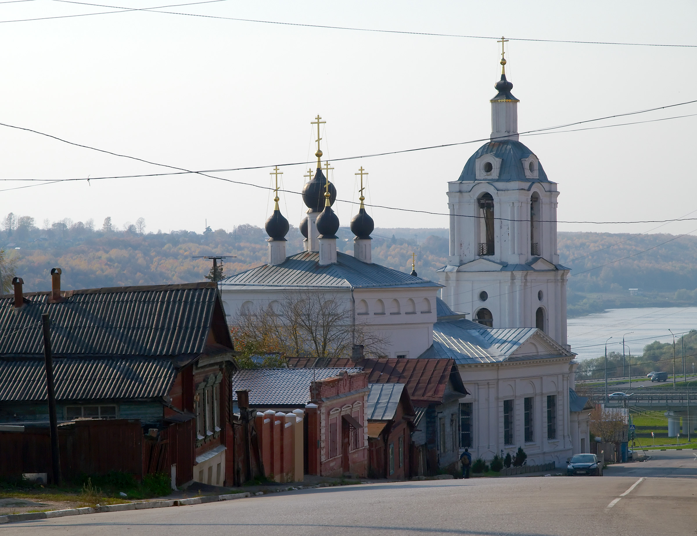 Church of the Transfiguration za verkhom ("behind the hill"?) in Kaluga. View west down Smolenskaya Street.